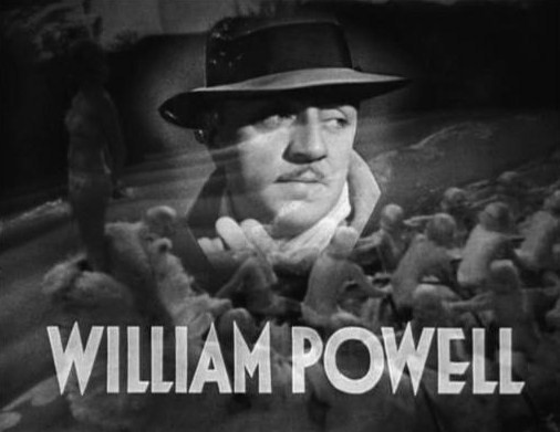 Frame from the public domain trailer for Warner Bros. 1934 film Fashions of 1934 showing William Powell and his name in type